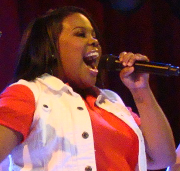 Amber Riley as Mercedes Jones, performing "Don't Stop Believin'" on the Glee Live! In Concert! tour.